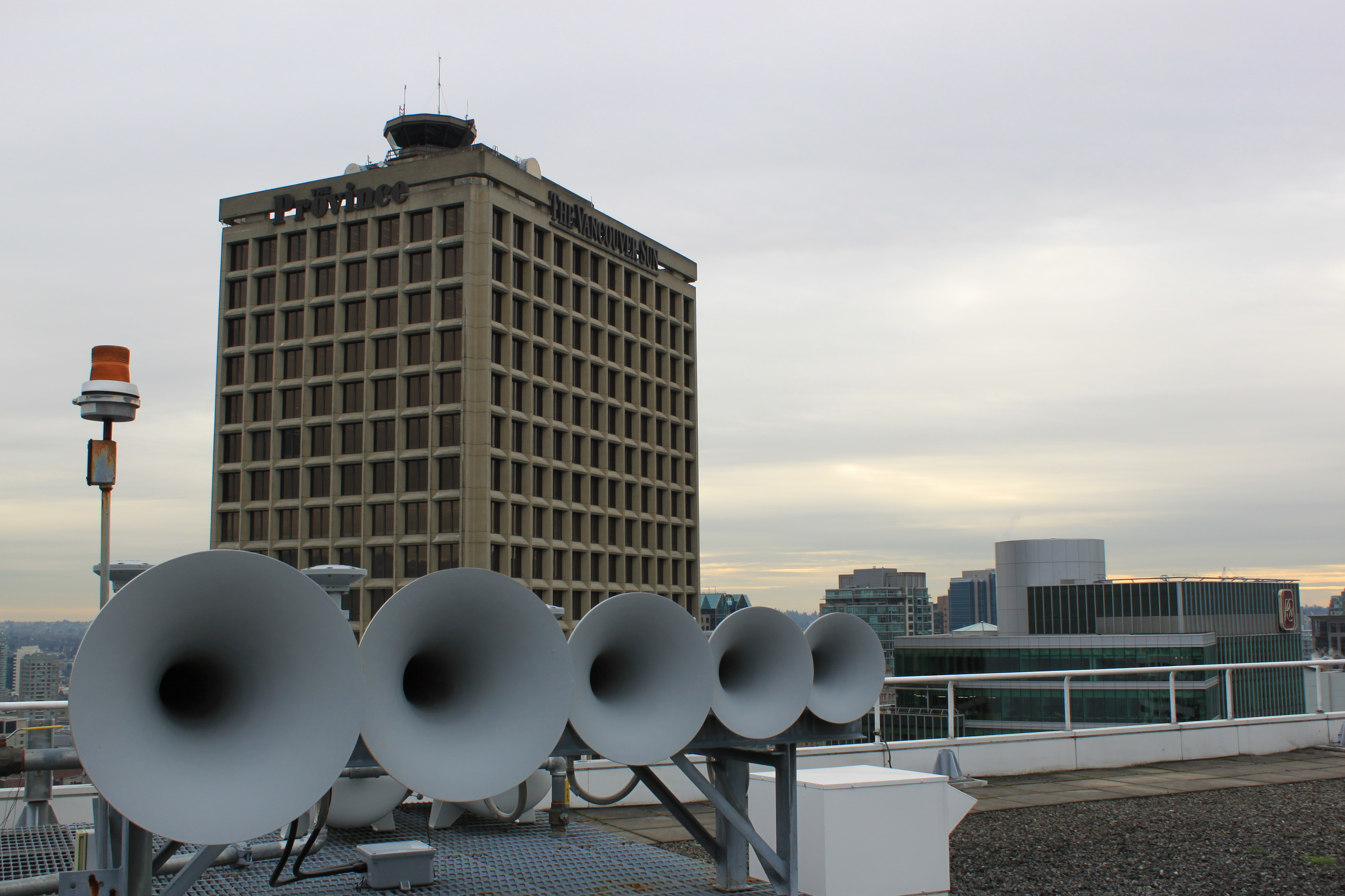 Each day at noon the first 4 notes of “O Canada” are played from the Heritage Horns on the Pan Pacific roof.